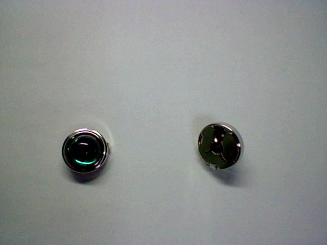 Button cover